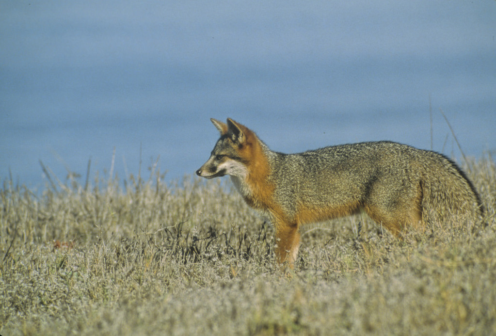 Urocyon littoralis santacruzae (Santa Cruz island fox)